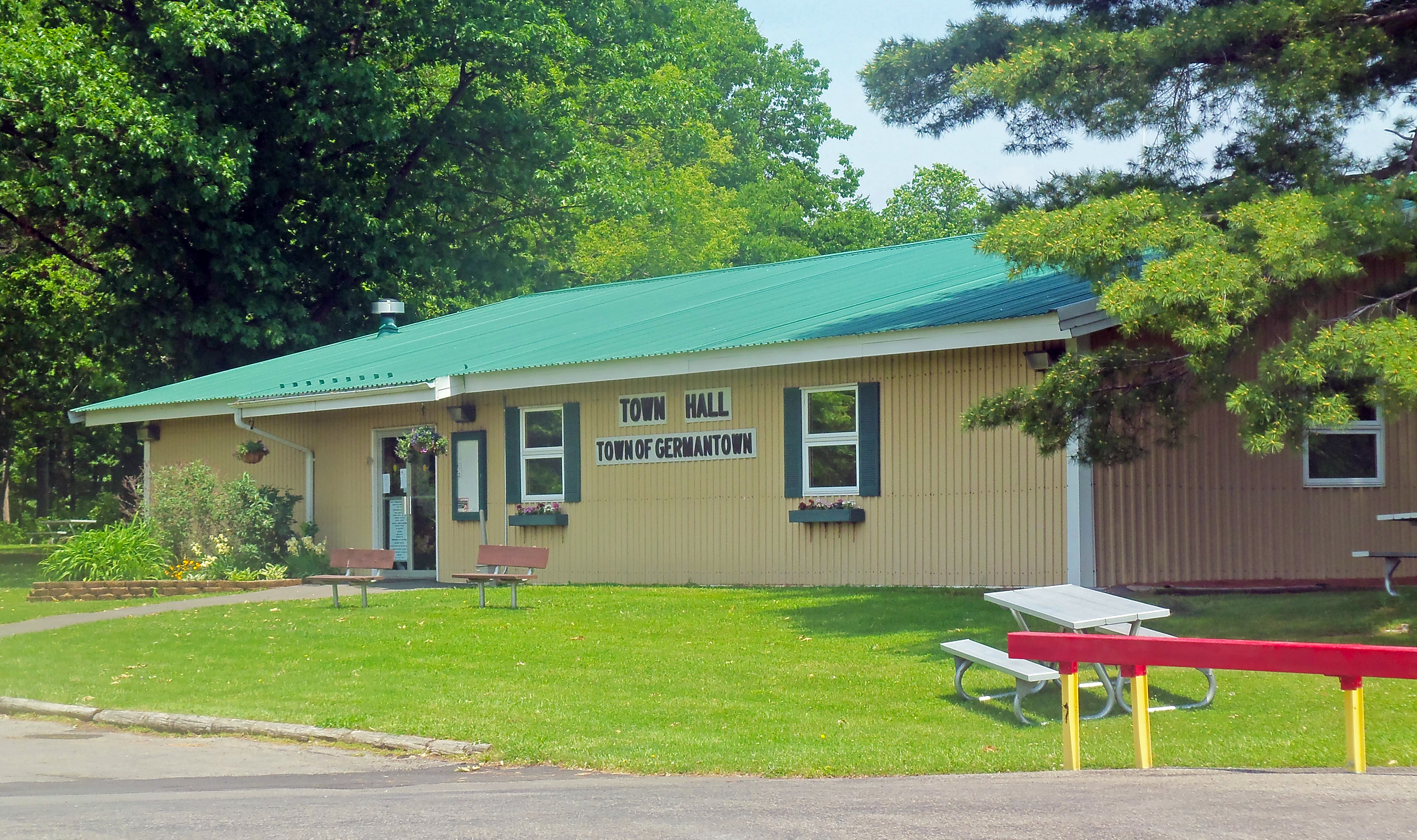 Town hall building, Germantown, NY, USA